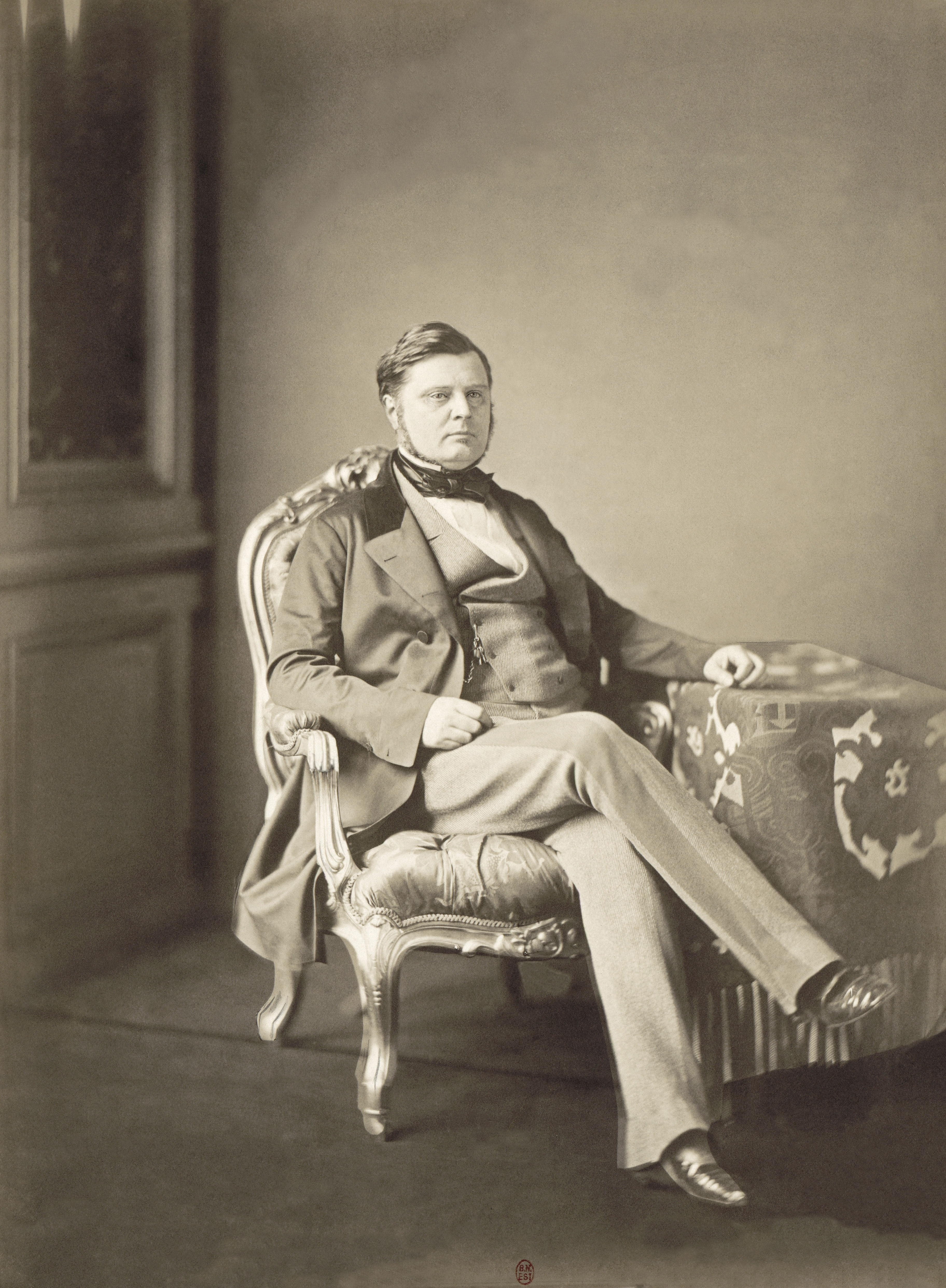 Count Alexandre Joseph Colonna-Walewski (1810 - 1868), Minister of Foreign Affairs of Napoleon III, here photographed as representative of France at the Congress of Paris (1856) which ended the Crimean War.